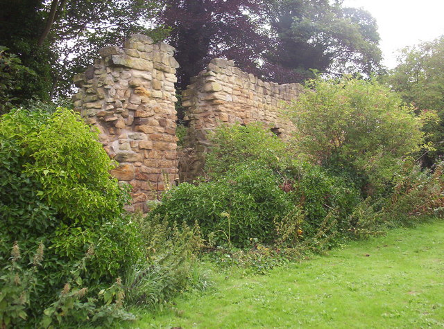 Ruins of Morpeth Castle. Morpeth Castle is a Scheduled Ancient Monument and a Grade I listed building at Morpeth, Northumberland, in northeast England.